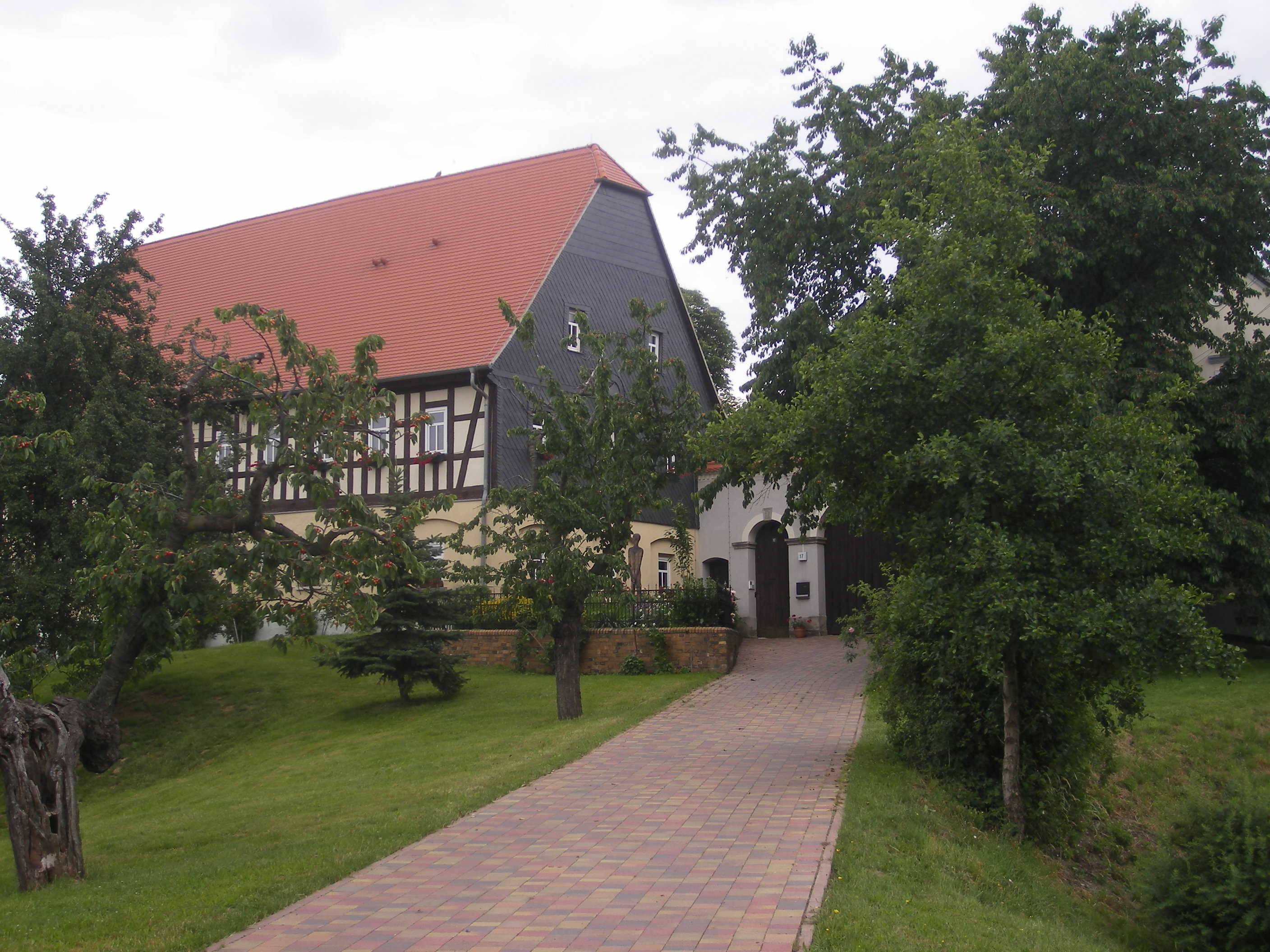 Estate in Beerwalde (Ronneburg) near Gera/Thuringia